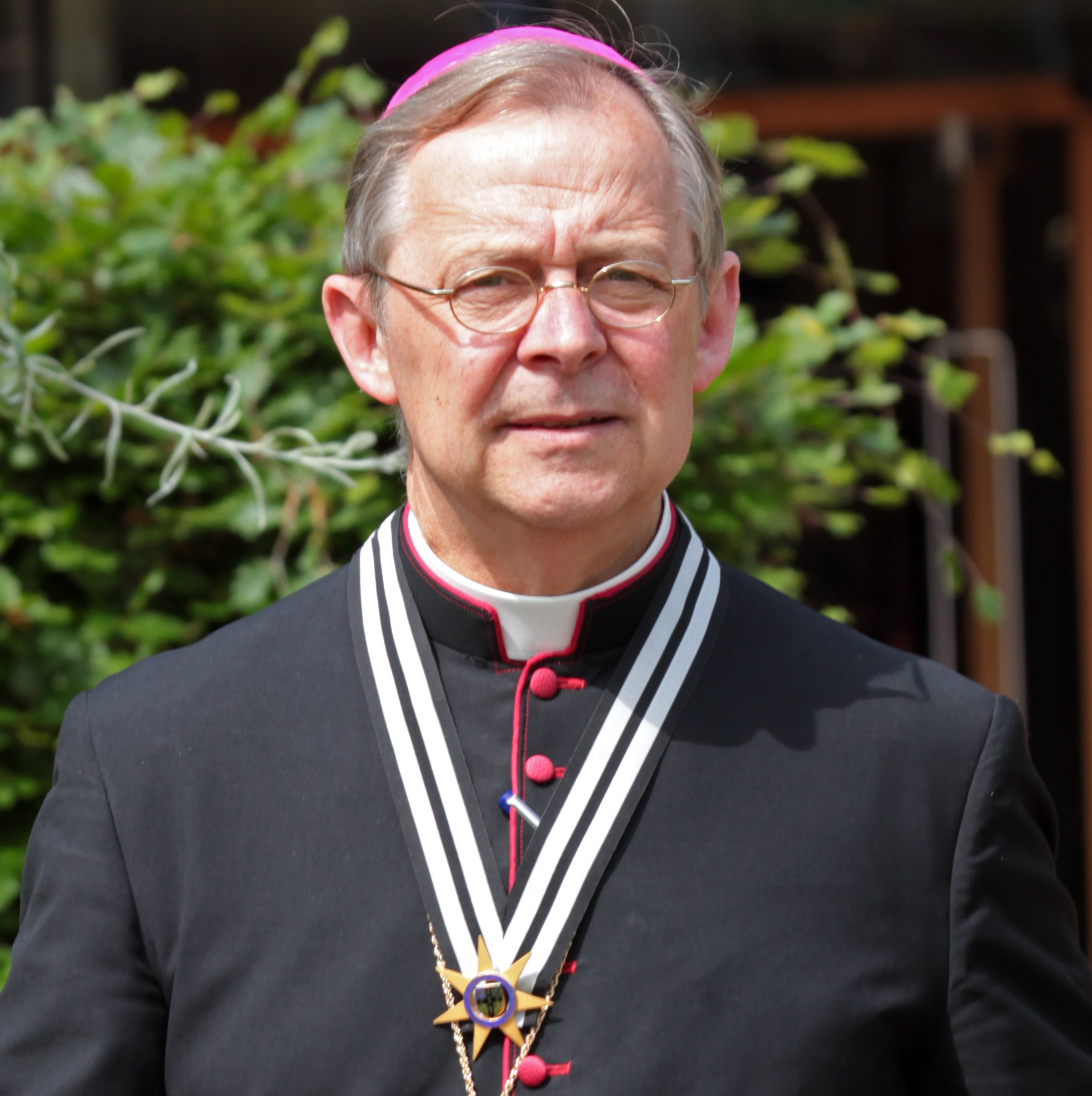 Bishop Lindsay Urwin, 2014 National Pilgrimage to Walsingham